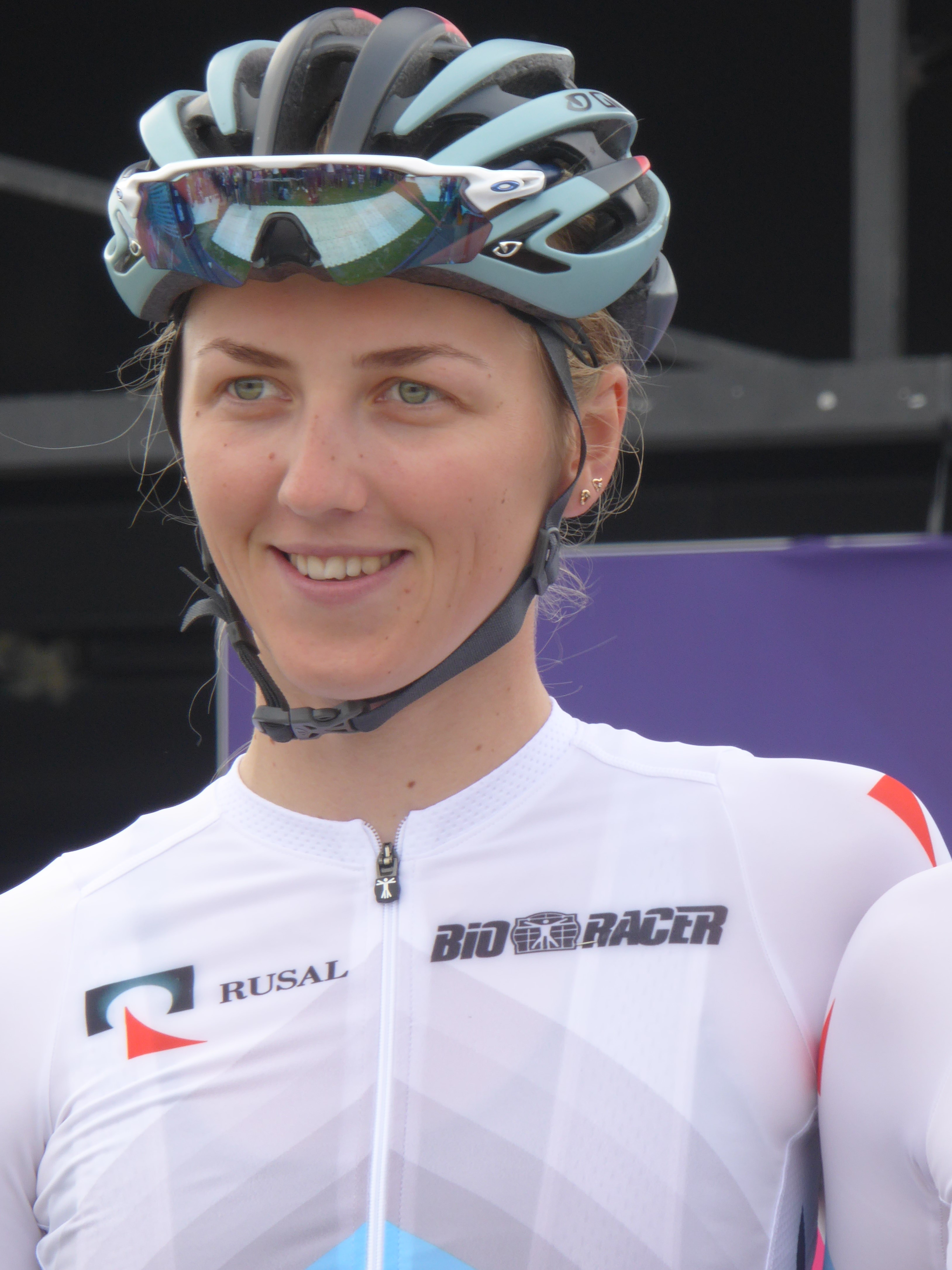 Margarita Syradoeva (Russia), prior to the women's road race at the 2018 UEC European Road Cycling Championships in Glasgow.